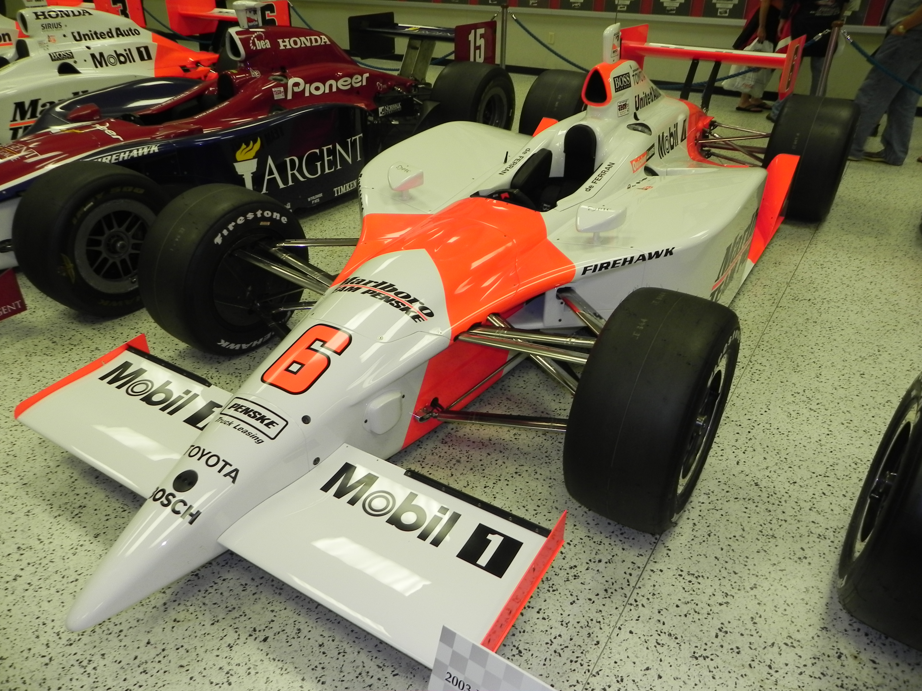 Image of the winning car of the 2003 Indianapolis 500 (Gil de Ferran). Photo was taken at the Indianapolis Motor Speedway Hall of Fame Museum, during the month of May 2011, at the 100th Anniversary "Ultimate Indianapolis 500 Winning Car Collection."